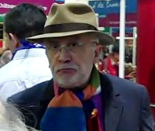 From author: "Jean Heritier and Jacques Berthomeau in the Sud de France section of the salon d'agriculture in Paris" ====================================== Jacques Berthomeau is a wine consultant who was commissioned by the French Ministry of Agriculture to prepare a report in 2001 that is now known as The Berthomeau Report.